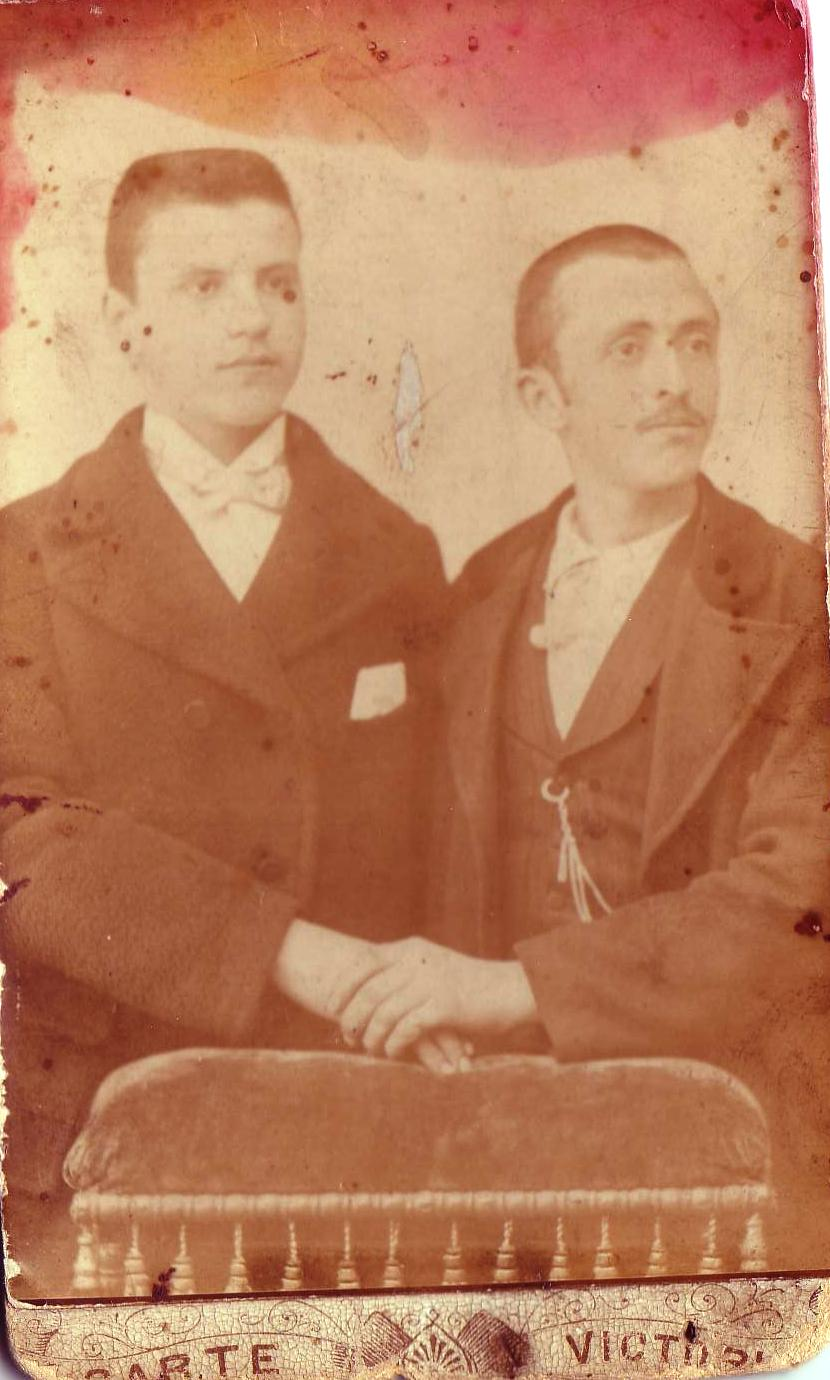 1895 Stavros Tsamis [right] with his cousin Thomas Tsamis in Monastiri